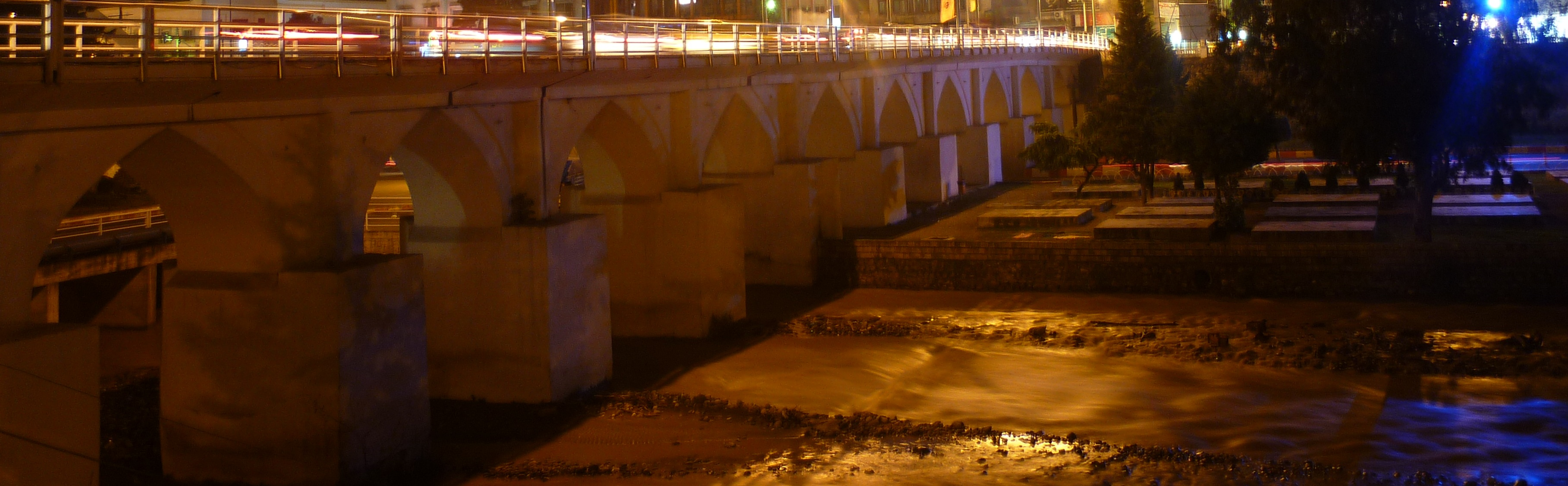 BRIDGE ARCH